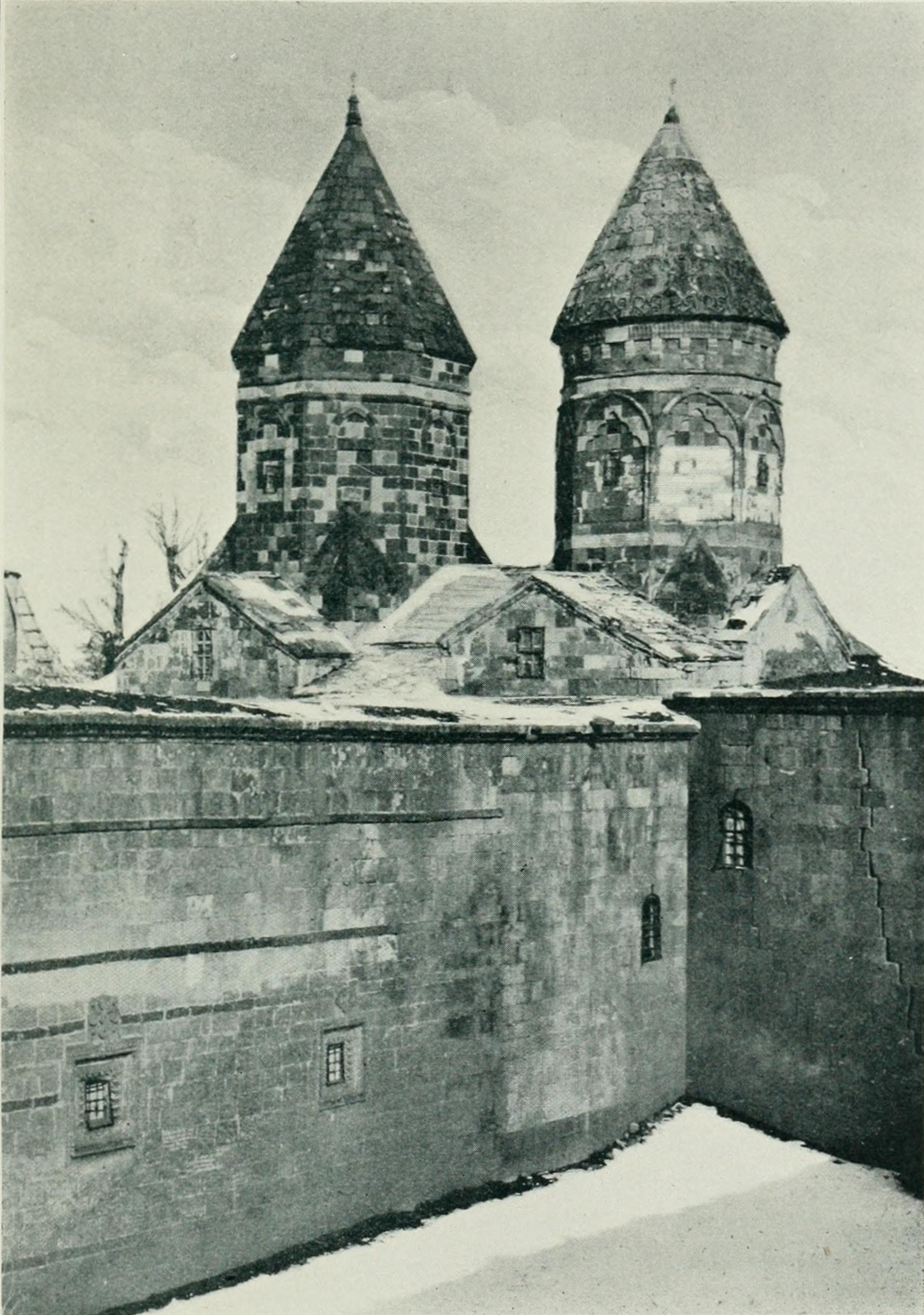 The two chapels at the 4th century Armenian monastery of Surb Karapet in the Taron Province of historic Armenia (at the time of the photo in the Ottoman Empire, present day Turkey).